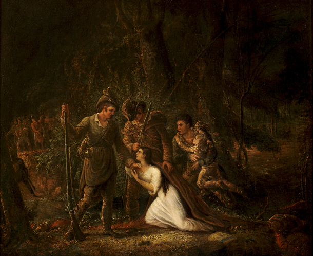 Sergeants Jasper and Newton Rescuing American Prisoners by John Blake White, oil on canvas, United States Senate Collection